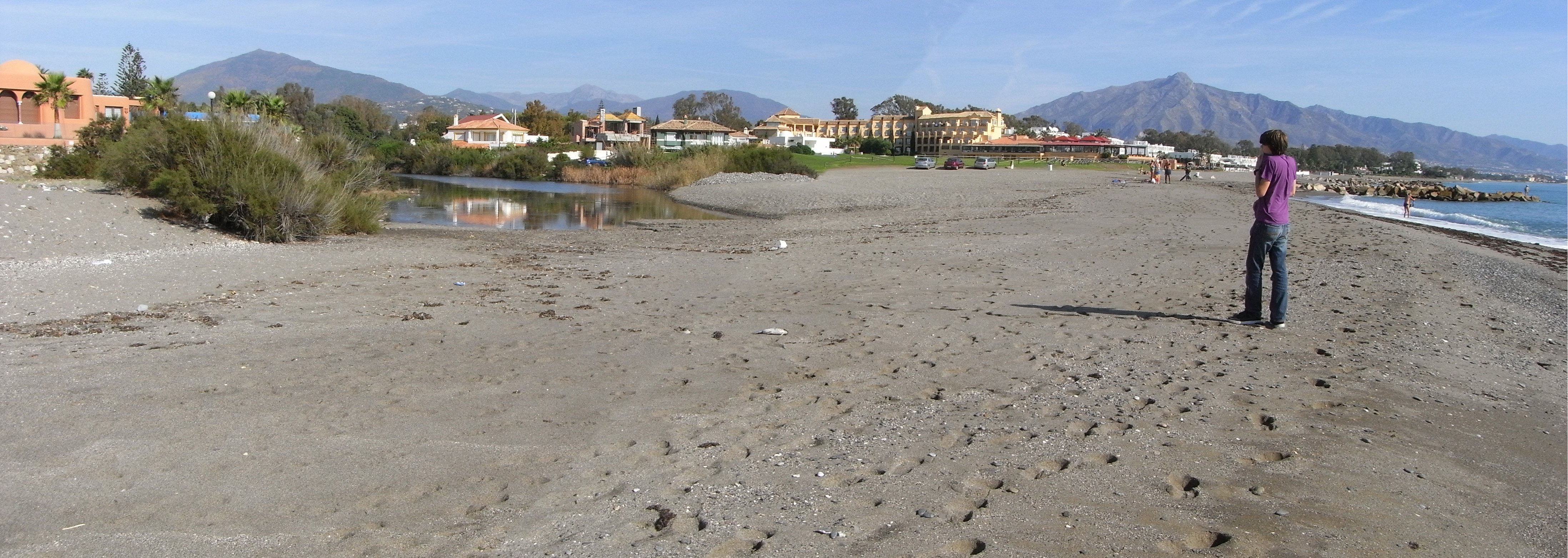 Mouth of the Guadalmina river and western part of the beach of San Pedro de Alcántara in southern Spain